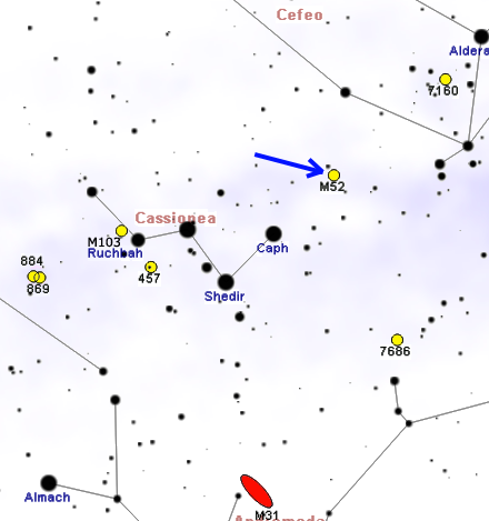 M52